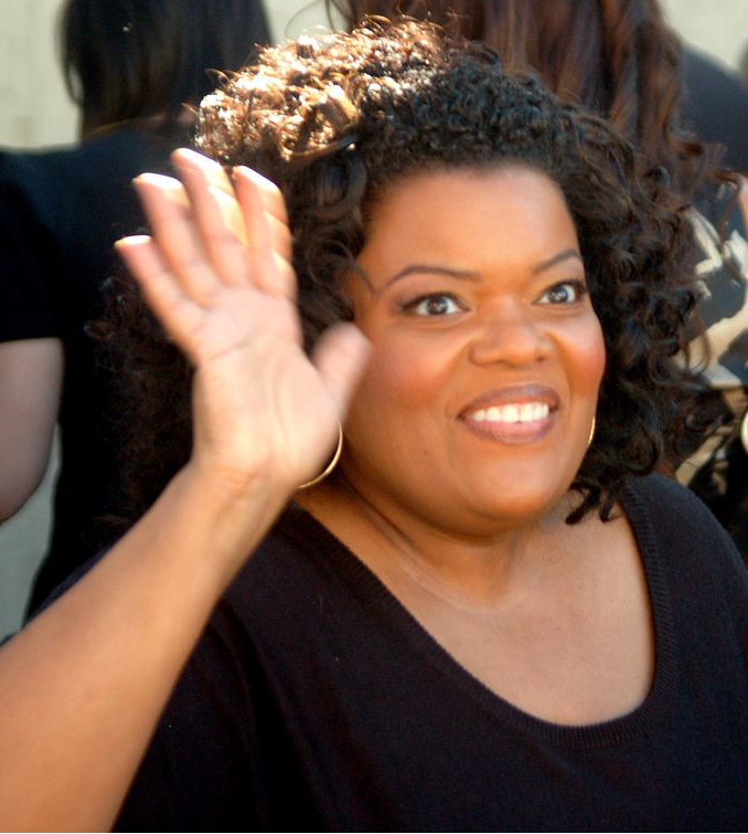 Yvette Nicole Brown at a ceremony for Boyz II Men to receive a star on the Hollywood Walk of Fame.